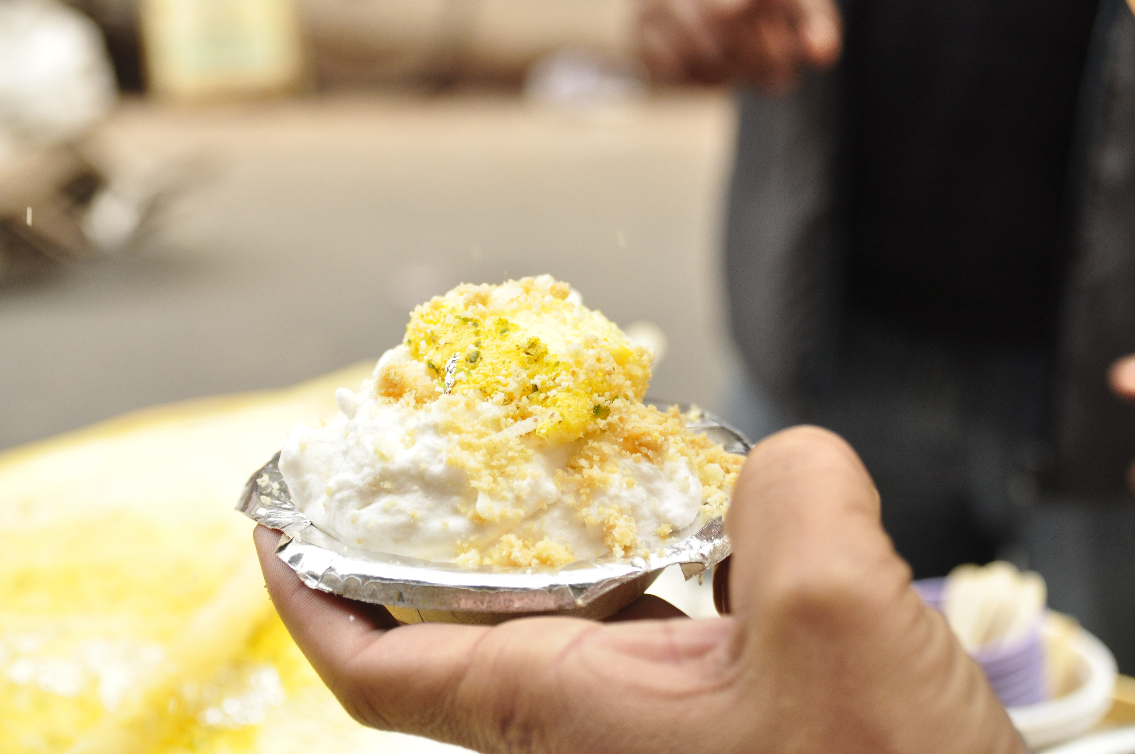 Daulat Chaat is the stuff legends are made of. Using a complicated technique of condensing milk foam on a cold night, this dish is only available during winters. Milky, airy and melt-in-mouth. YUM!